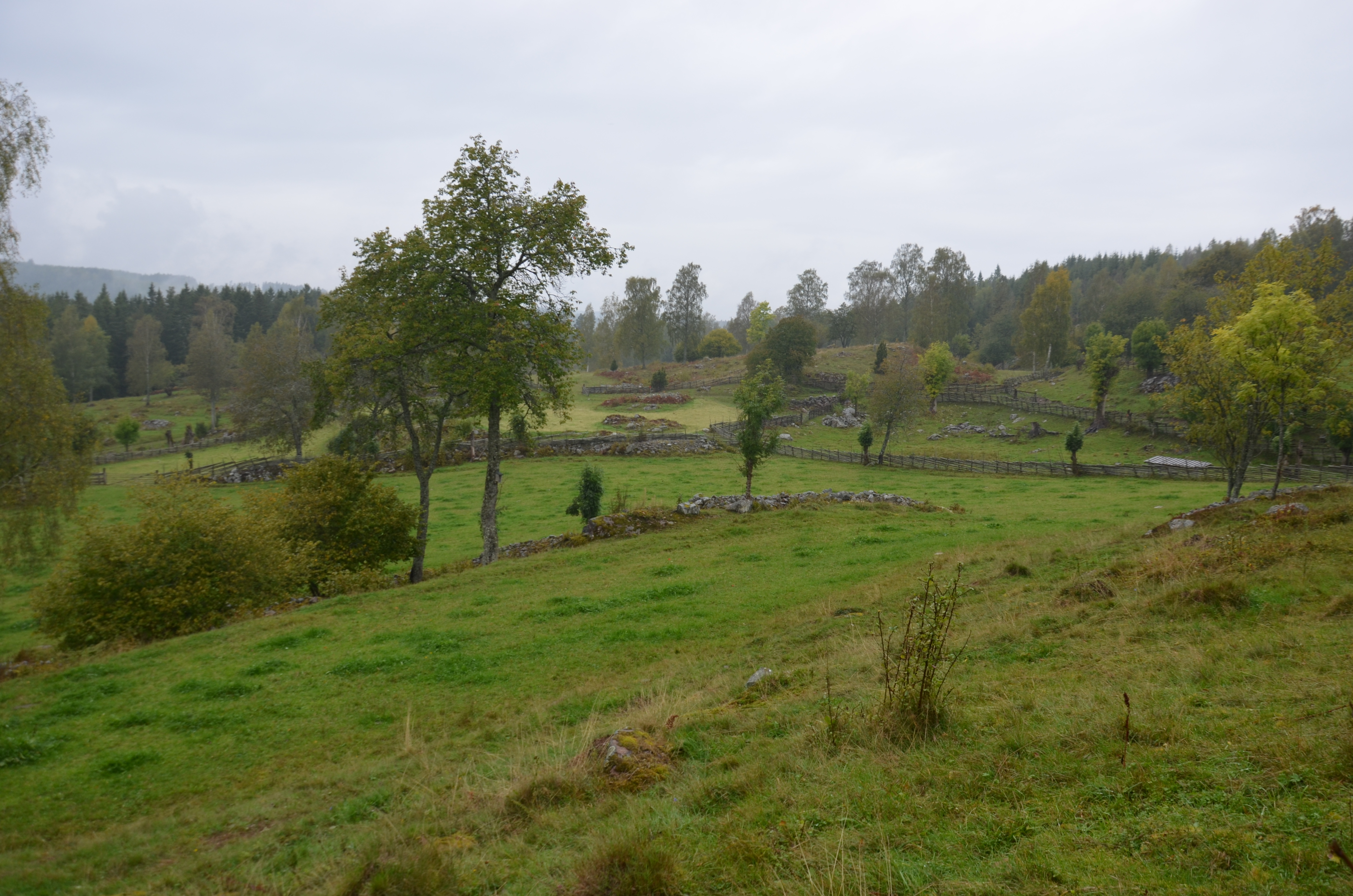 Village Åsen,Swedish heritage area, Haurida